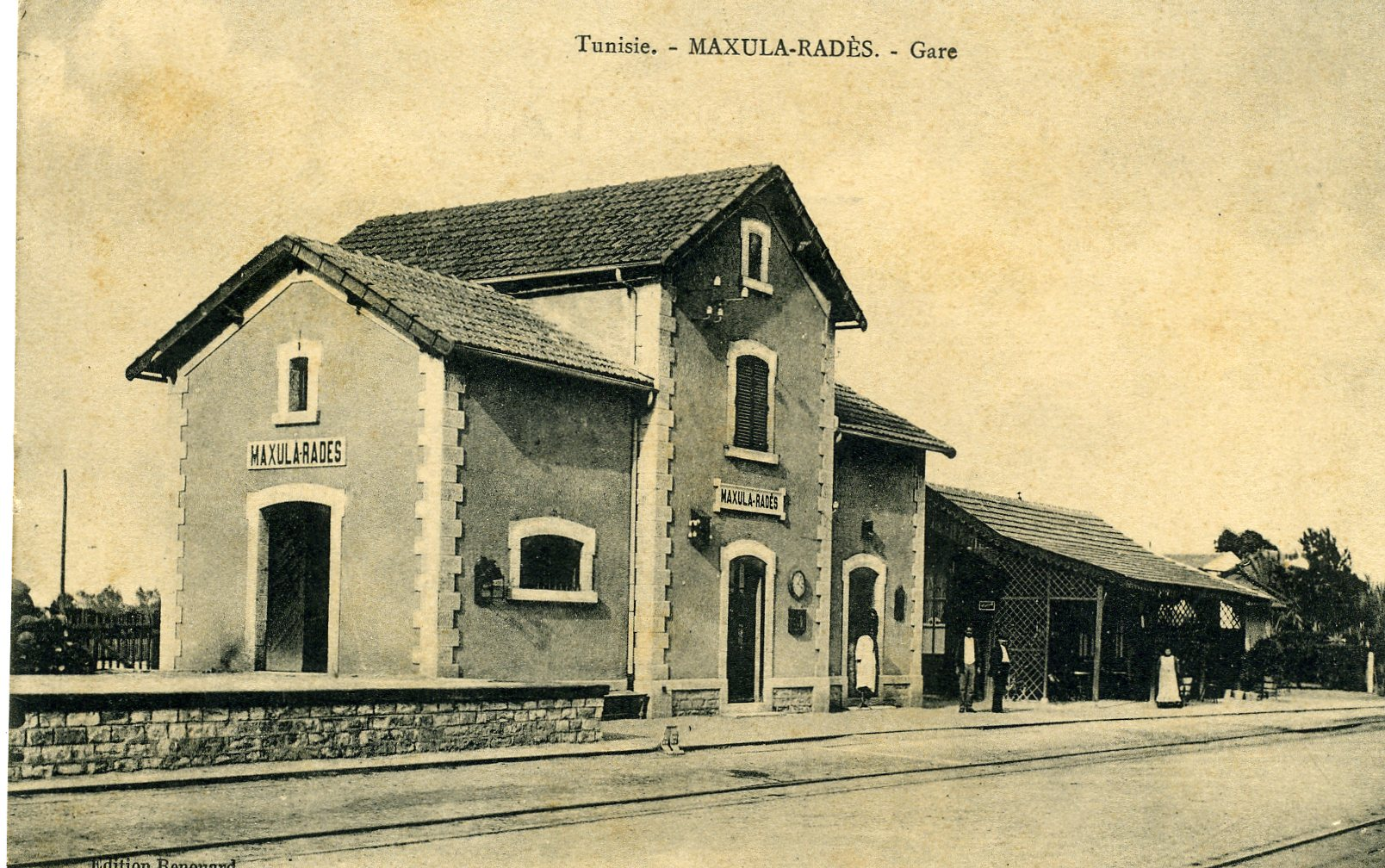 Train Rades_Station_-_MAXULA_-_Tunisia